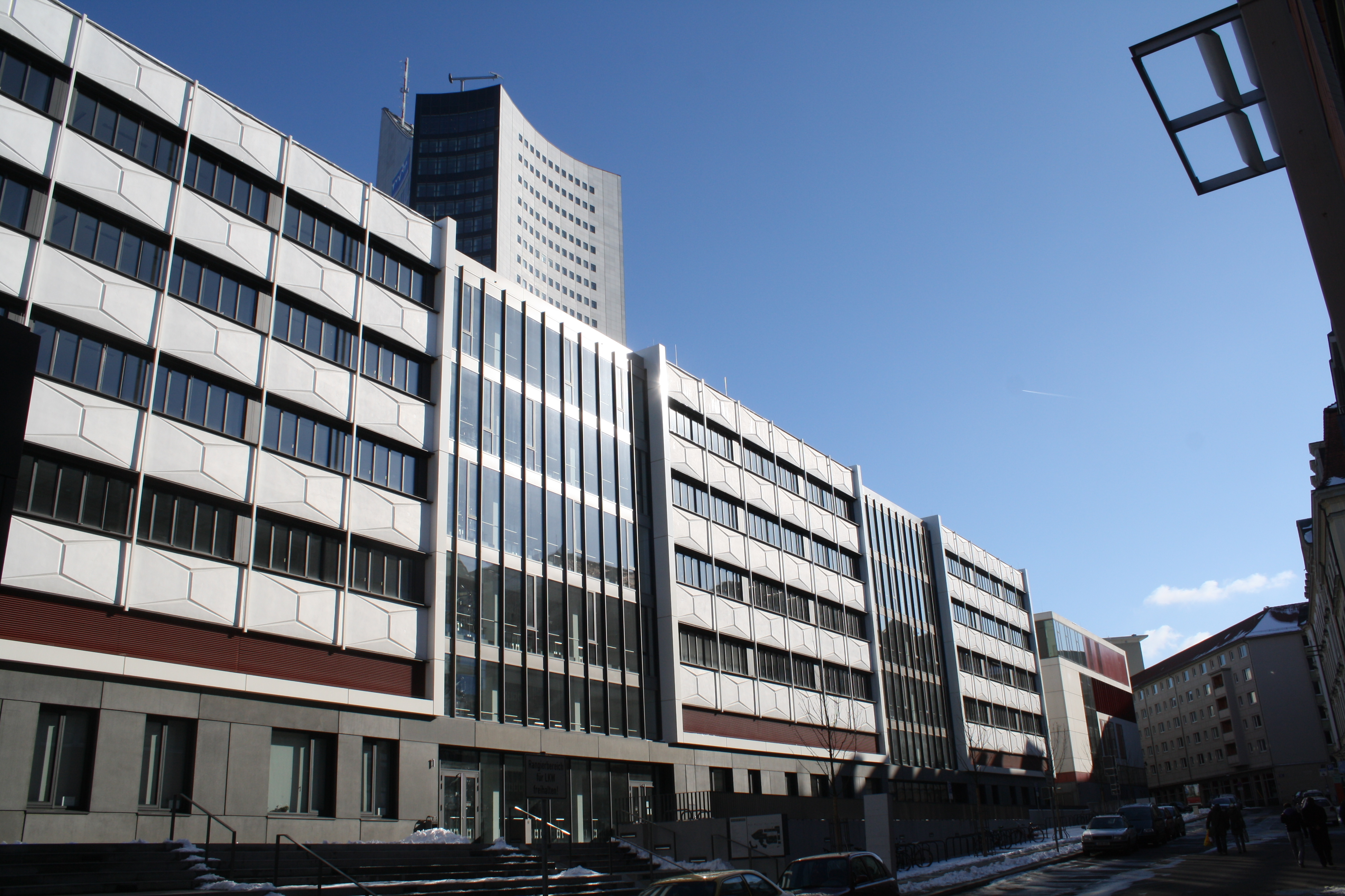 The New Seminary Building of the University of Leipzig